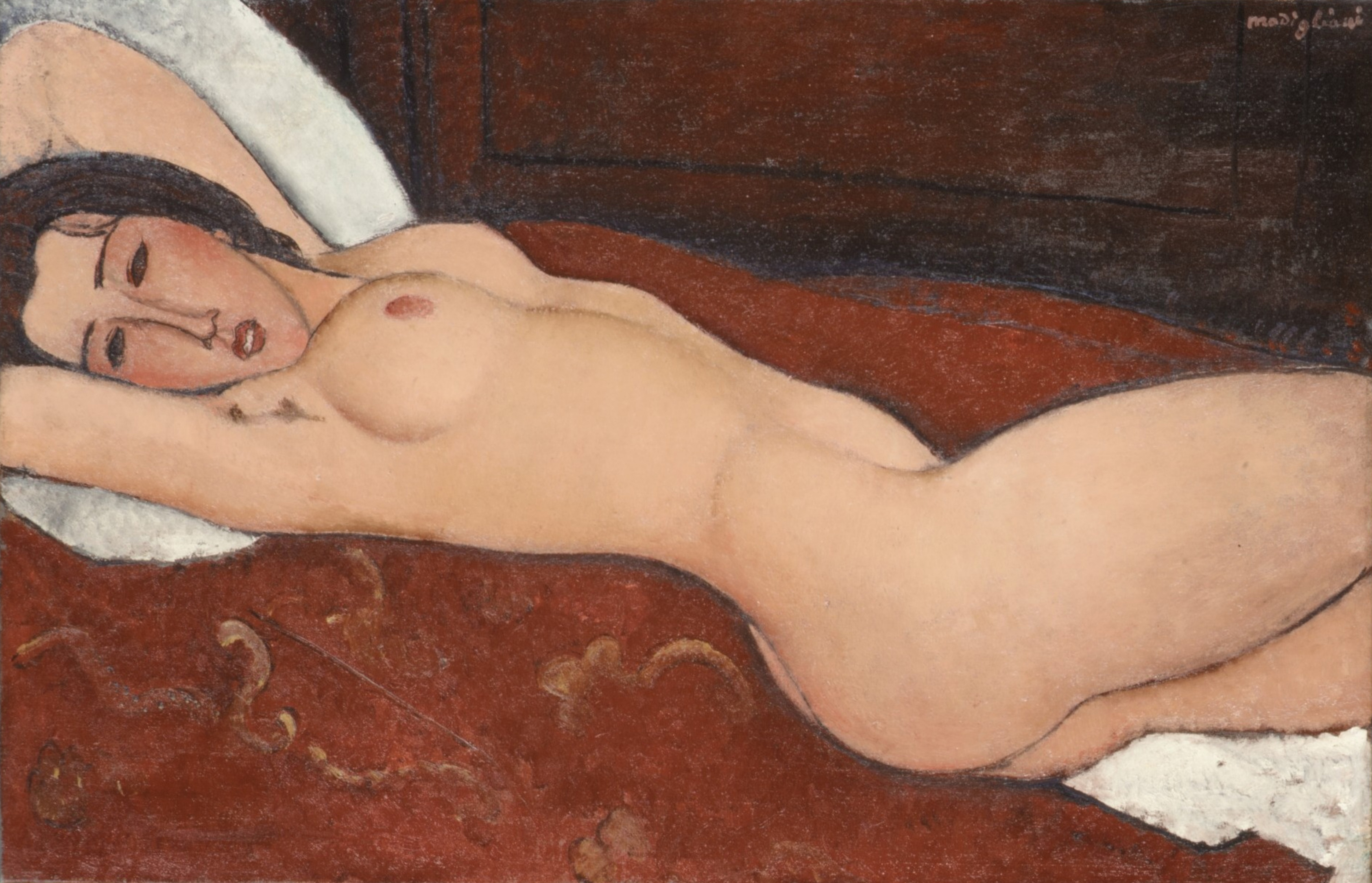 Reclining Nude, a 1917 painting by Amedeo Modigliani. Measures 23 7/8 x 36 1/2 in. (60.6 x 92.7 cm)